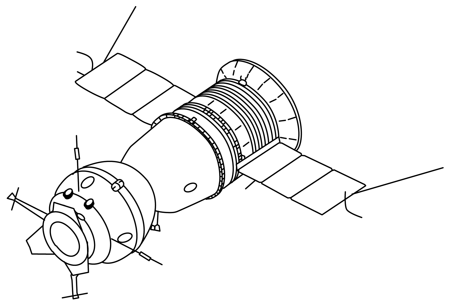 Apollo-Soyuz Test Project (ASTP) Soyuz. The APAS-75 docking unit is located at left.